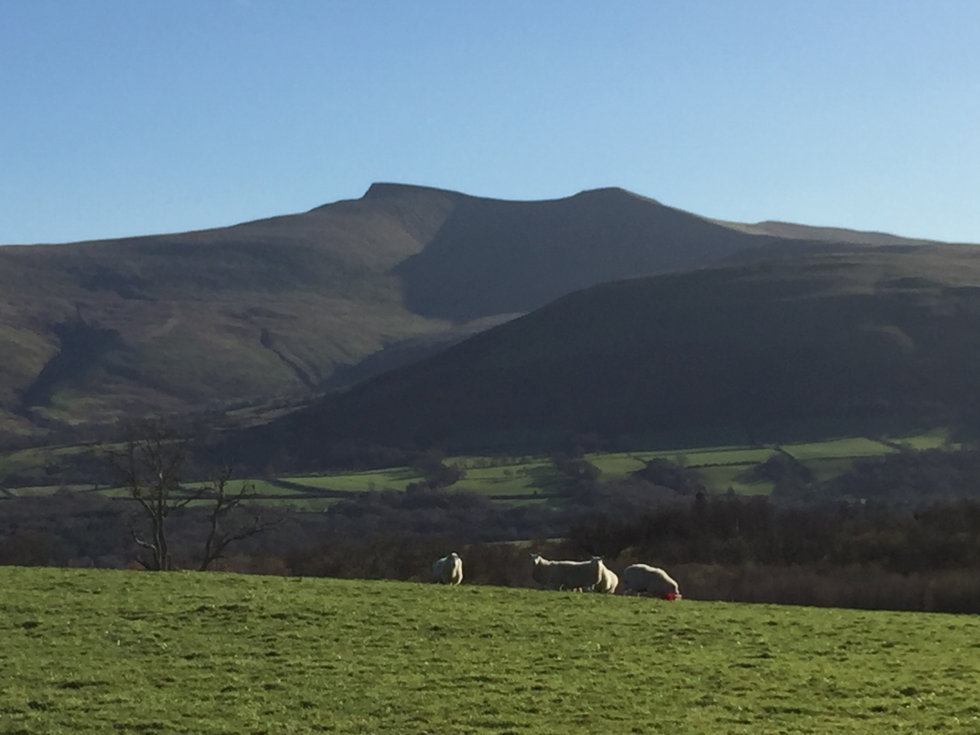 The Brecon Beacons from the National Park centre on Illtyd common near Libanus Powys, Wales.